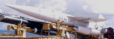 BOMARC B CIM-10B Surface-to-Air Missile.